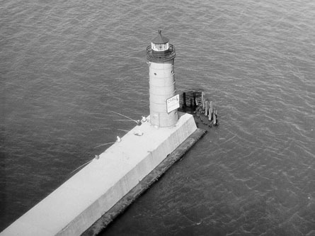 Public Domain statement here; The Milwaukee Pierhead Light is a lighthouse located in the Milwaukee harbor, just south of downtown.